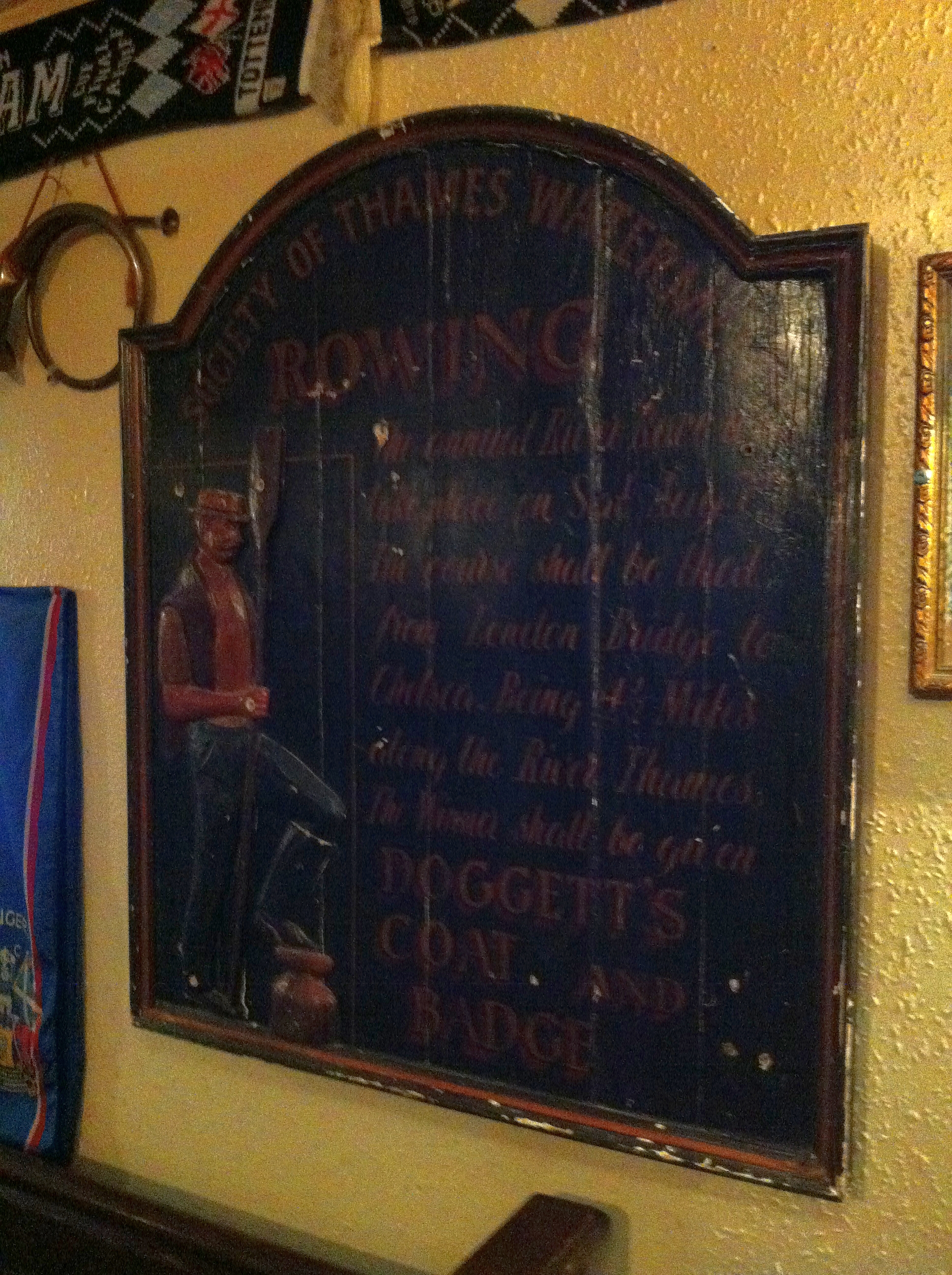 Rowing. The annual River Race will take place on Sat, Aug 1st. The course shall be that from London Bridge to Chelsea. Being 4 1/2 miles along the River Thames. The winner shall be given Doggett's Coat and Badge. The Old Mill pub, Ashton, Ontario Canada